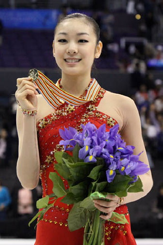 Kim Yu-Na (KOR) during the medals ceremony at the 2009 World Figure Skating Championships. She won the gold medal